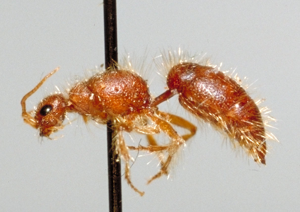 Chyphotes spec. female (California) Bradynobaenidae